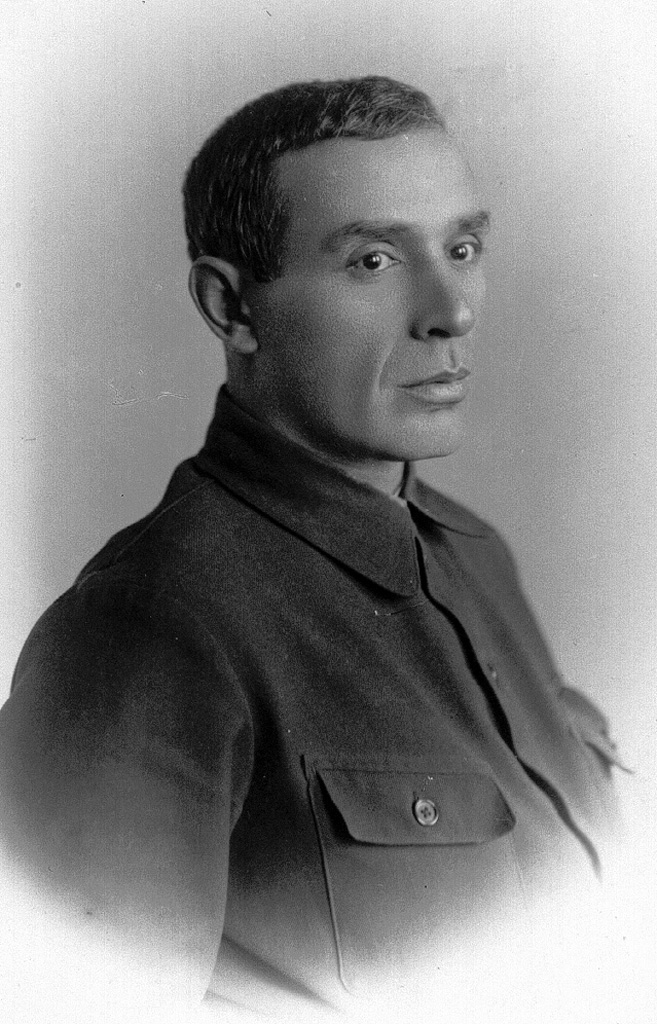 Sergey Lukashin (Sargis Srapionyan)